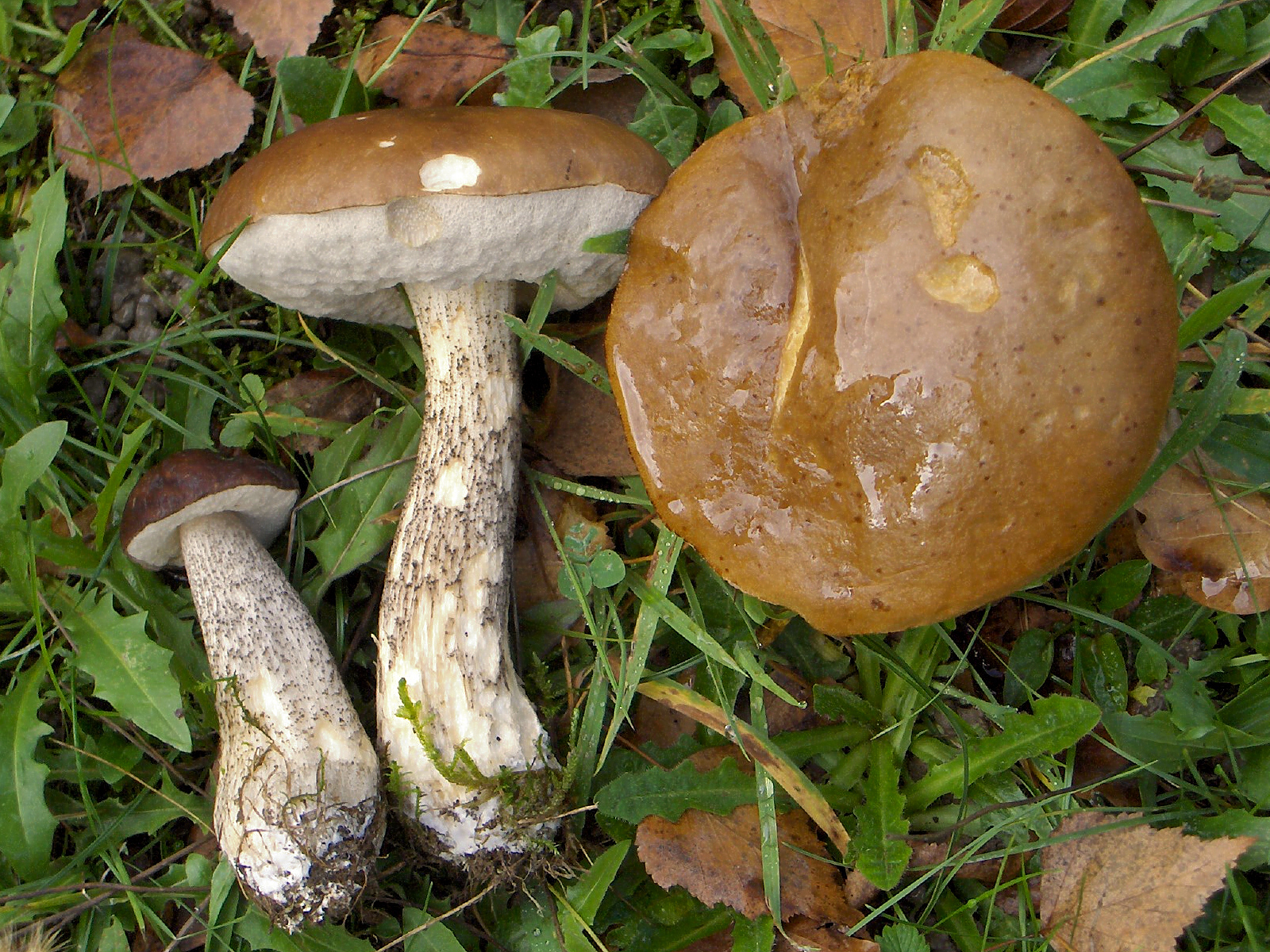 Leccinum scabrum (Bull.) Gray Image location: Lipik, Croatia Recognized by sight For more information about this, see the observation page at Mushroom Observer.